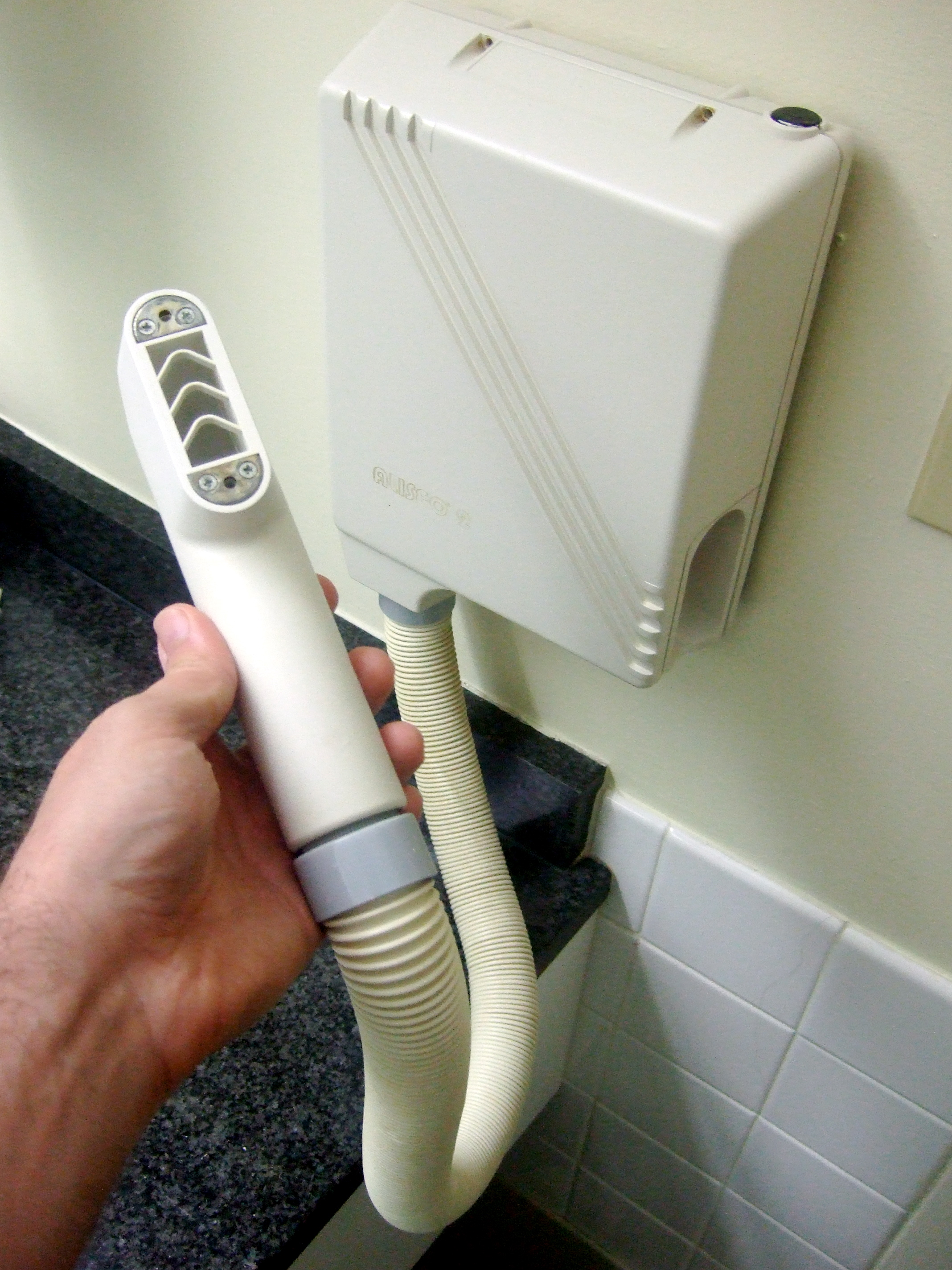 Hair dryer attached to a wall.